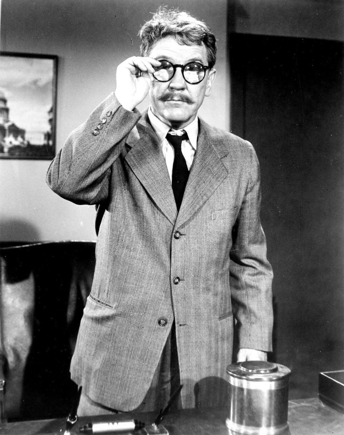 Publicity photo of Burgess Meredith as Henry Bemis in The Twilight Zone episode, "Time Enough at Last", aired on November 20, 1959.